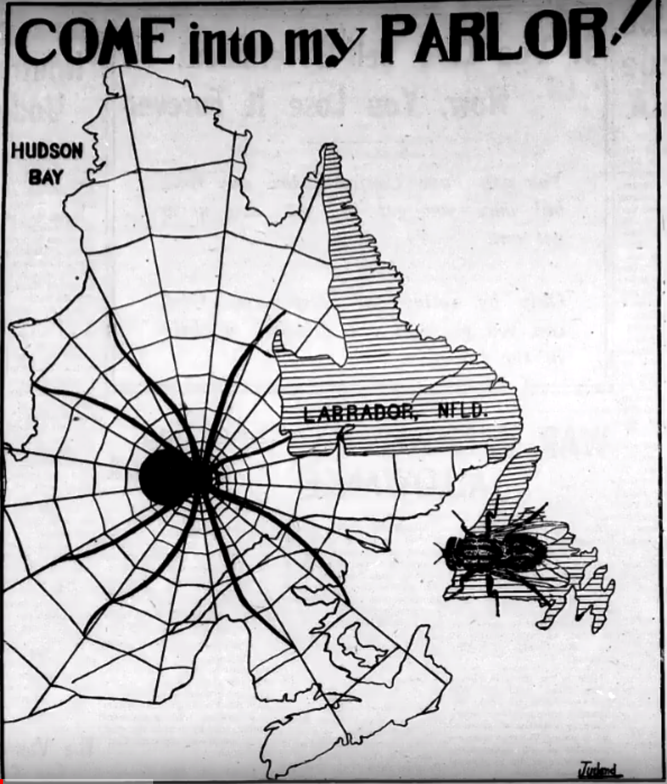 Anti-confederate poster in the campaign before the Newfoundland referendum, 1948.